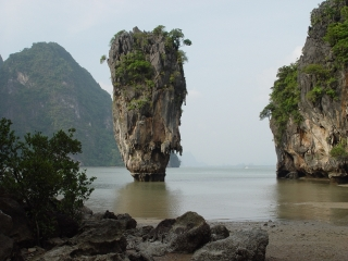 James Bond Island in the Andaman Sea